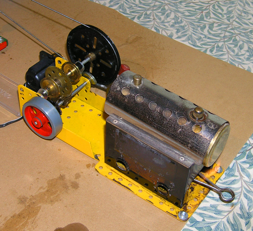 A yellow Meccano MEC1 steam engine driving a workshop of Mamod tools.